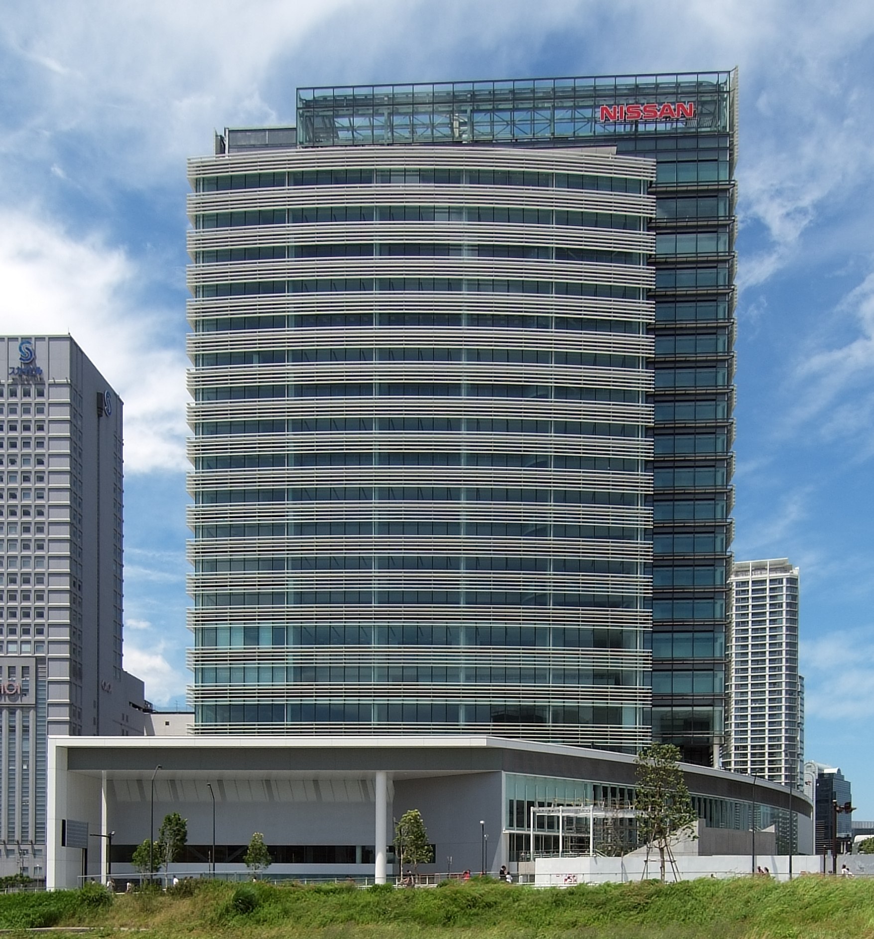 Nissan Head Office, at Naka-ku Yokohama Japan, designed by Yoshio Taniguchi & Takenaka Corp in 2009.